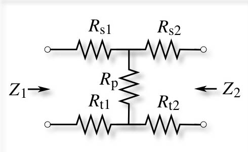 T type balanced attenuator circuit